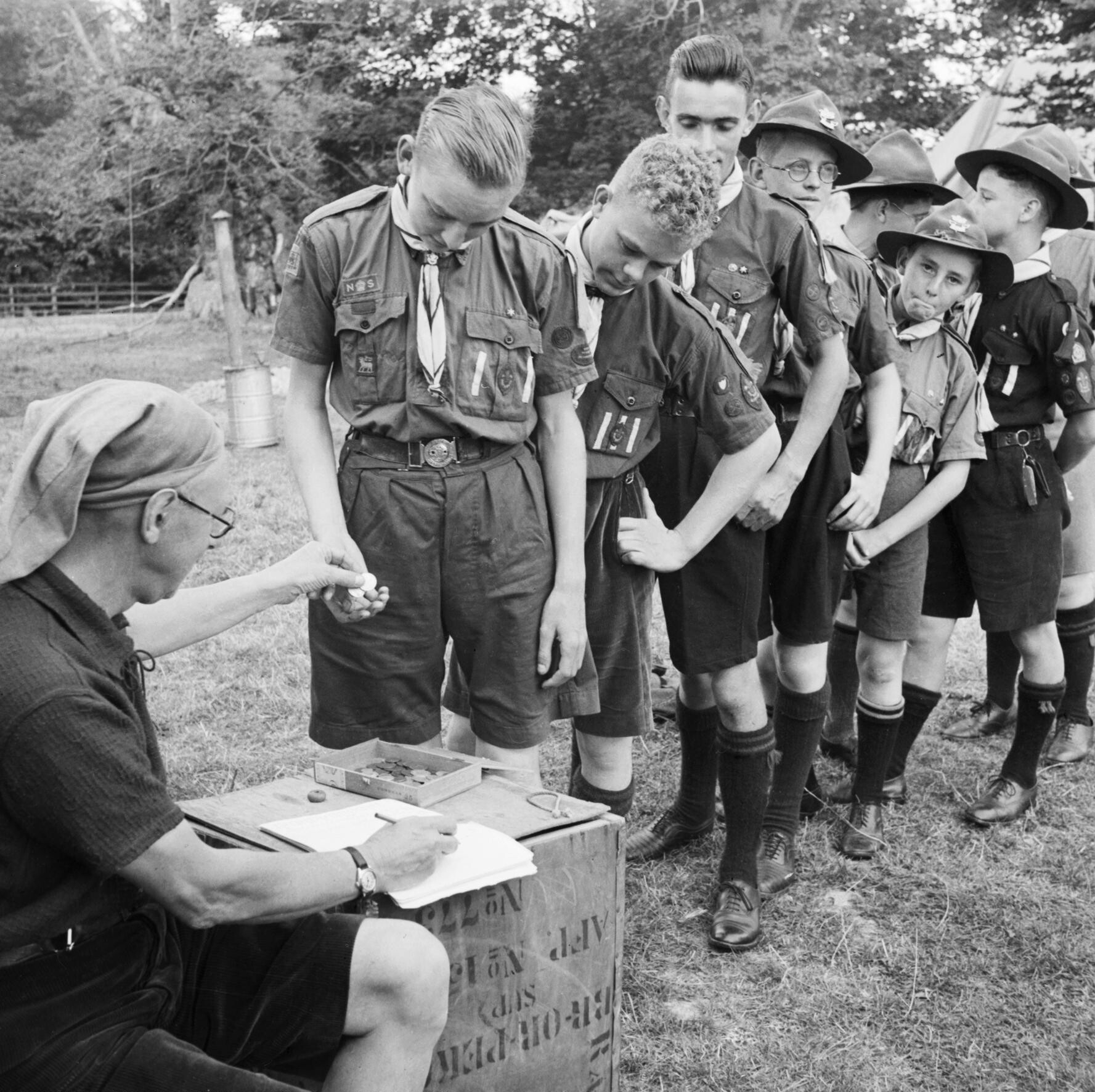 Pay Day for Boy Scouts at a fruit-picking camp near Cambridge in 1943. Saturday is Pay Day at the fruit-picking camp. Boy Scouts queue up in a pay parade to collect their pocket money from the Scout master. Over 14s get half a crown, whilst under 14s receive a shilling.